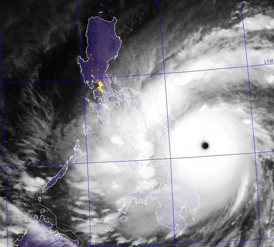 Haiyan NRL